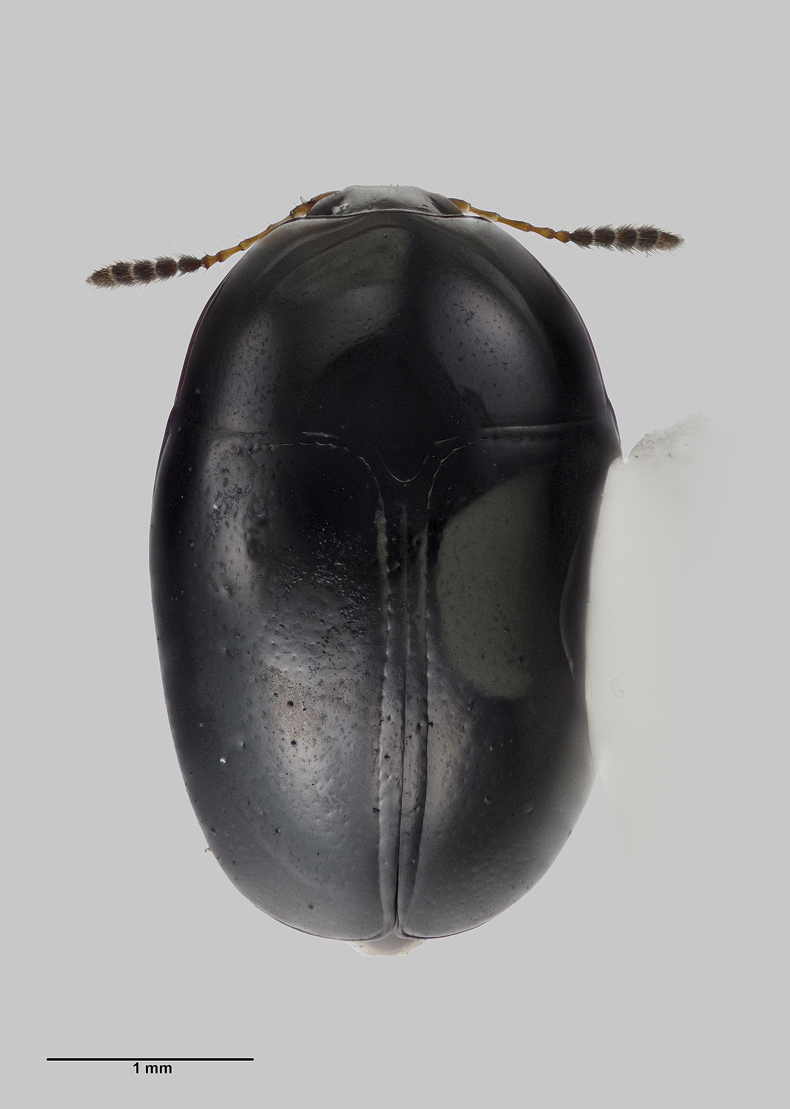 Dorsal view of Cyparium thorpei specimen AMNZ57119 (holotype) held at the Auckland War Memorial Museum